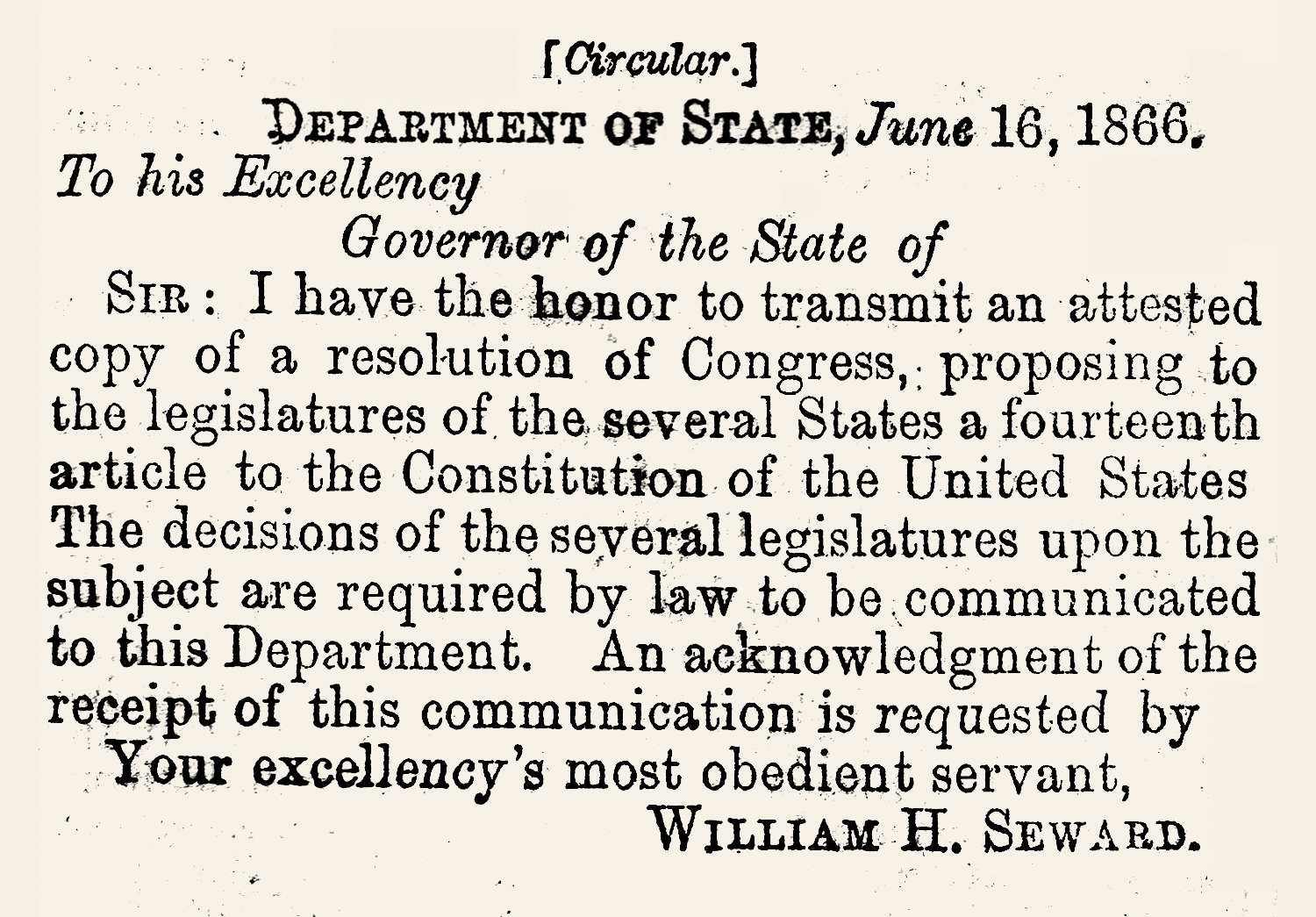 Form of the Letter of Transmittal from Secretary of State William Seward of the 14th Amendment to the Governors of the several states for the ratification thereof.